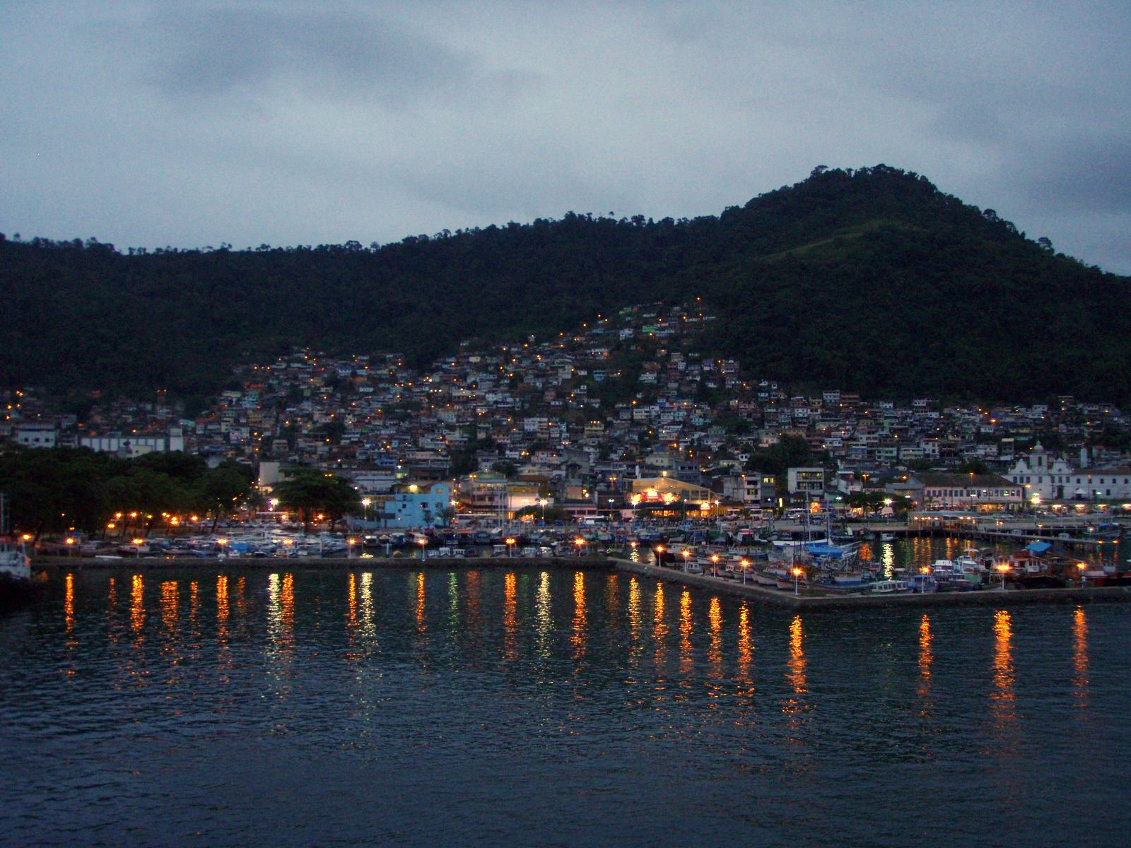 The lights of Angra Dos Reis coming on at sunset.